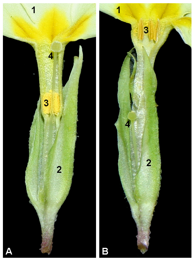 An example of heterostyly: Pin (A) and thrumb (B) flowers of the common primrose (Primula vulgaris), a distylous species. Pin and thrum flowers are borne by different plants. This genetically controled polymorphism enhances allogamy. Legend: (1) corolla, (2) calix, (3) stamen, (4) pistil.